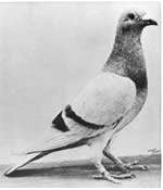 The pigeon William of Orange that served in the military in WWII.